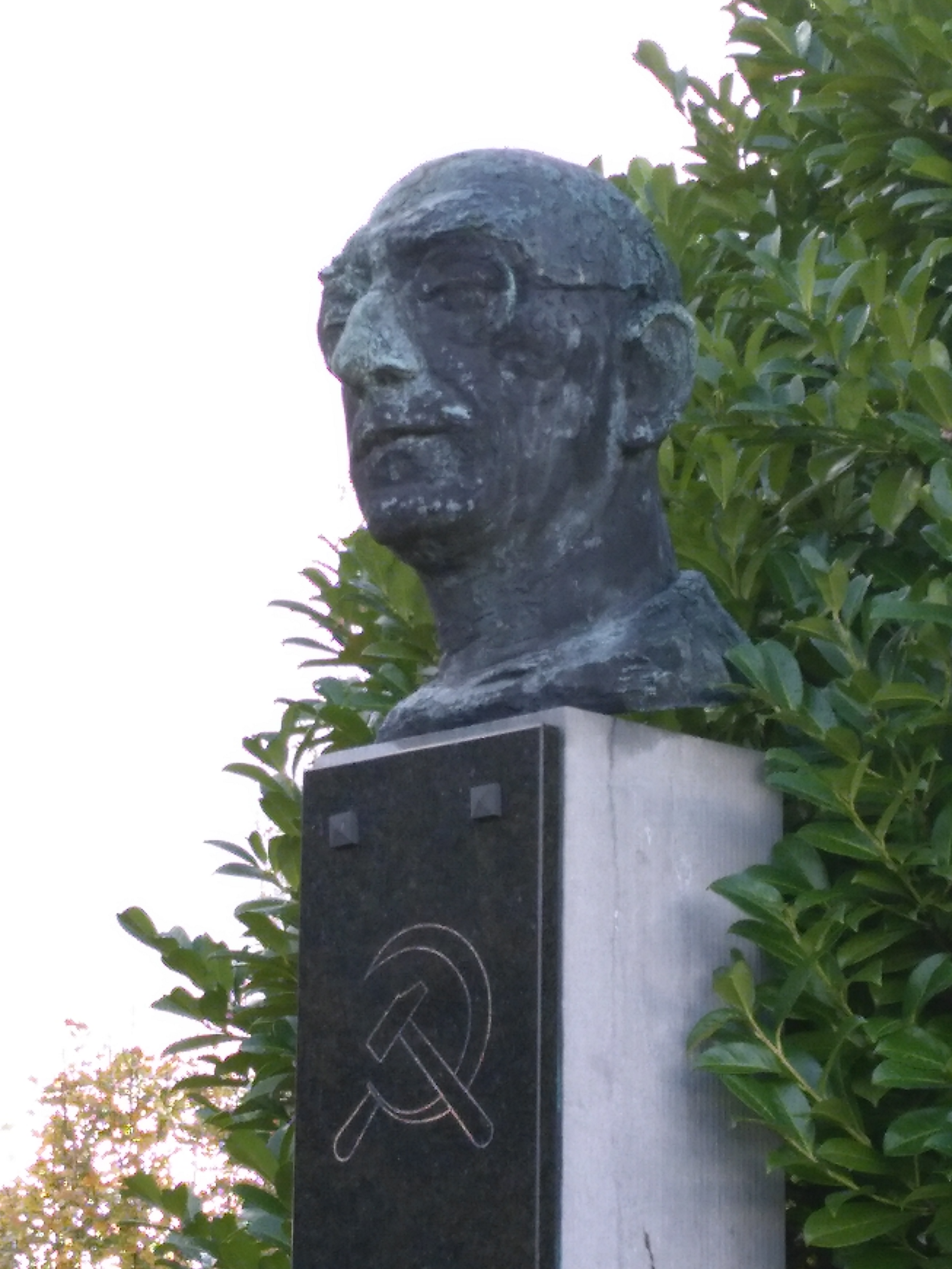 Joseph Jacquemotte grave, Cemetary of Saint-Gilles, Brussels. Bust by Dolf Ledel.